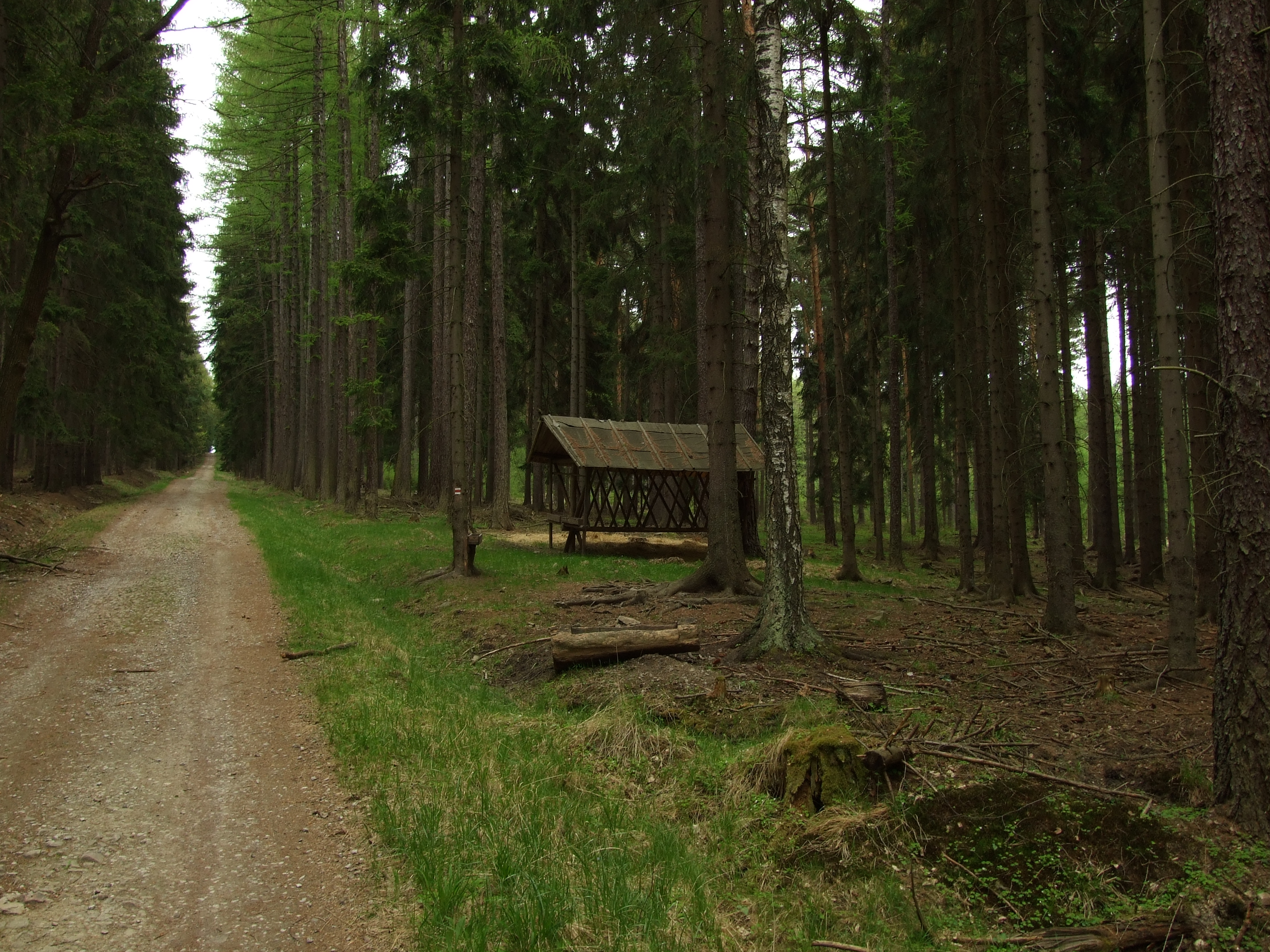 Hřebeny between Mníšek pod Brdy and Dobříš in Central Bohemian Region, Czech Republic